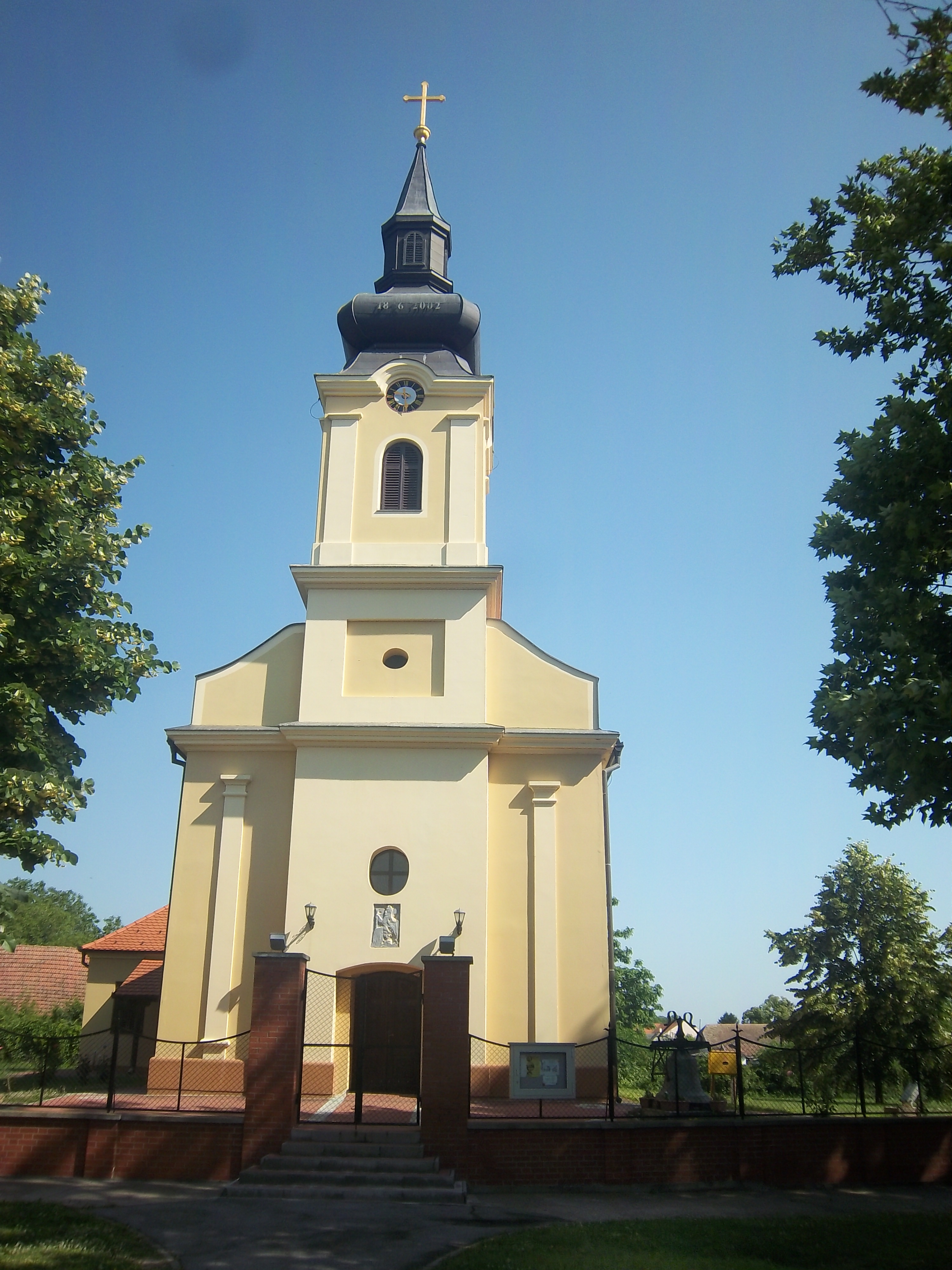 Village and municipality Tompojevci in Eastern Croatia